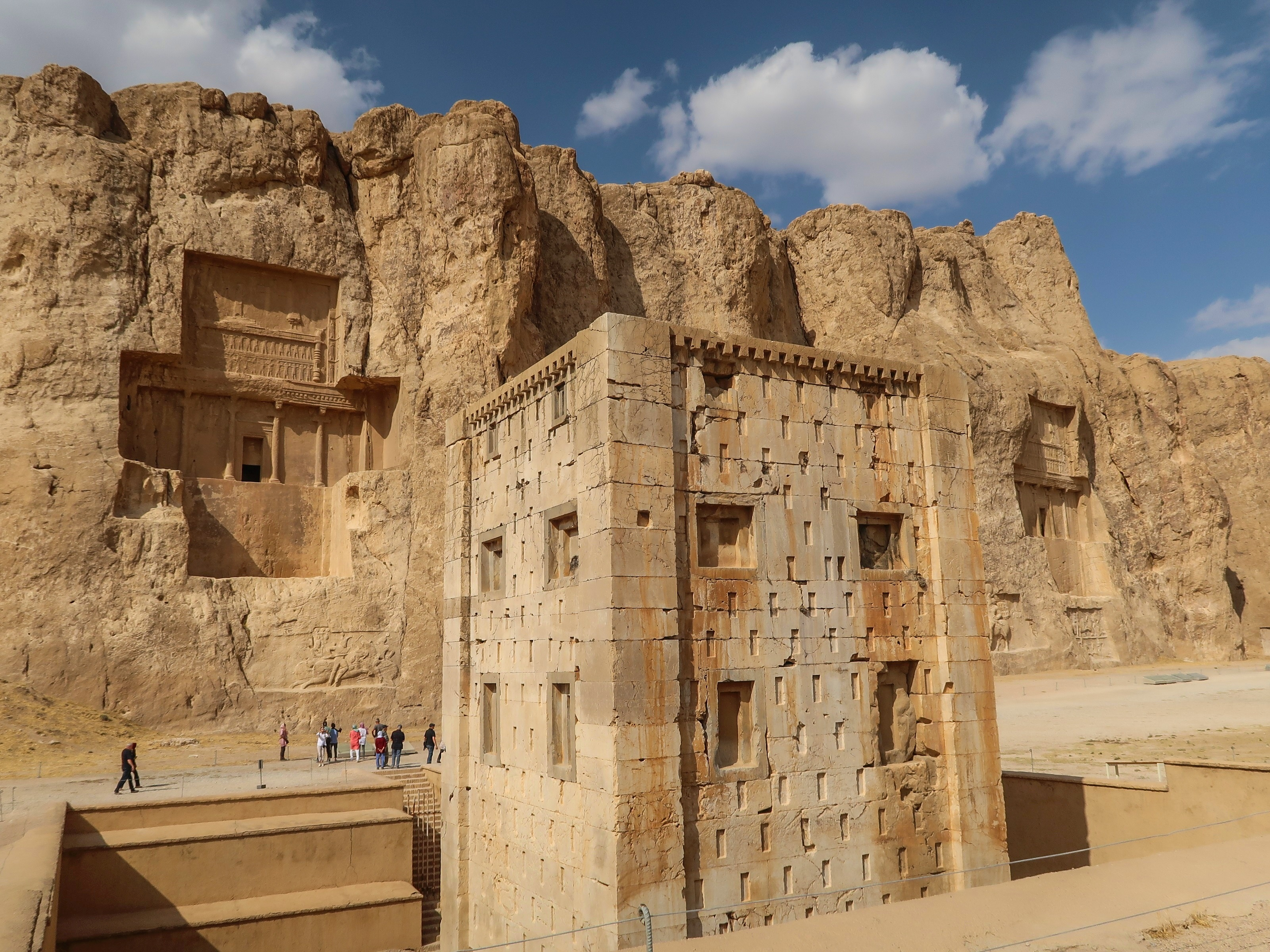 Naqsh-e Rustam necropolis in Iran, a view from South-West. Foreground: stone tower Ka'ba-ye Zartosht; background: left – tomb of king Darius II, right – tomb of Darius I (Darius the Great).